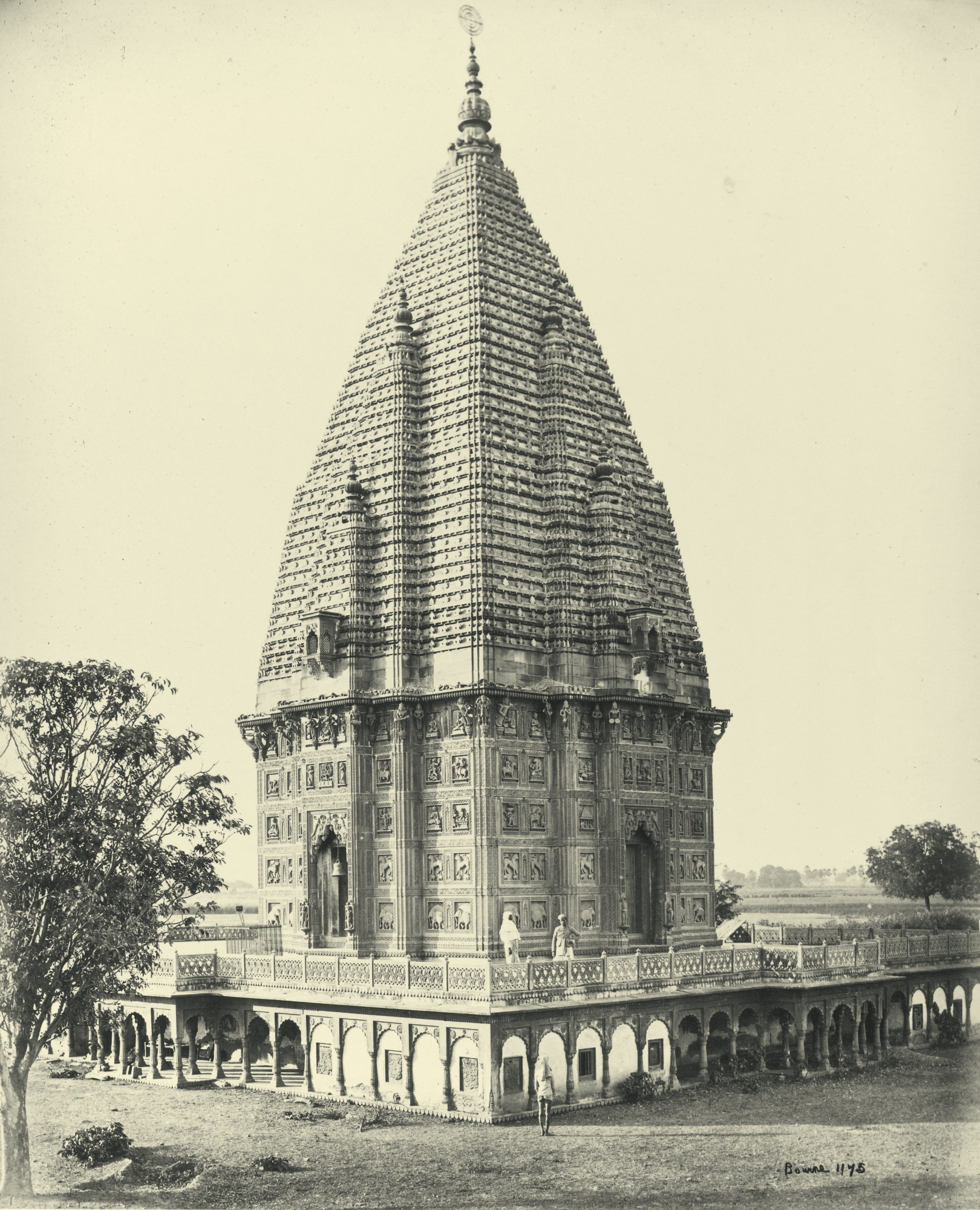 Durga Mandir in Ramnagar, Varanasi.